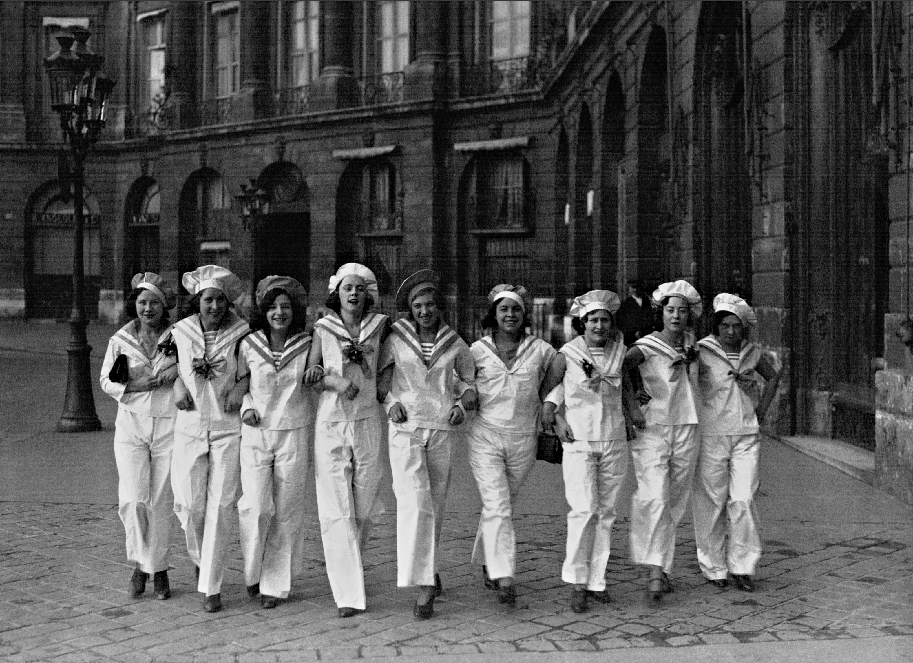 Catherinettes, rue de la Paix, Paris, 1932.(Cropped print.)